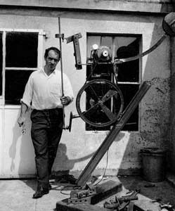 Jean Tinguely